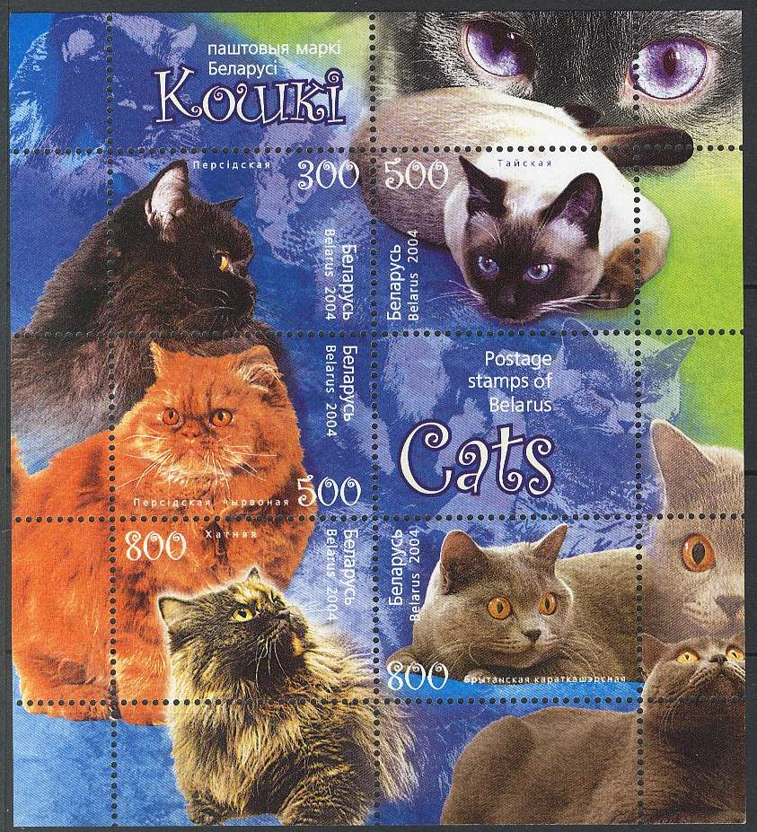 Stamp of Belarus